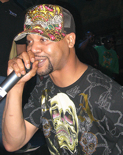 Juvenile (rapper) at The House of Blues in New Orleans, LA, March 21 2008.